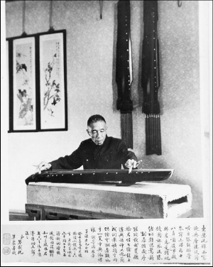 Guqin player Zhang Ziqian in 1940s